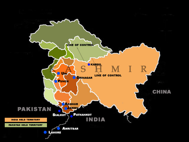 A map of the Kashmir region depicting sectors of engagement during the 1965 India-Pakistan war. Self made.